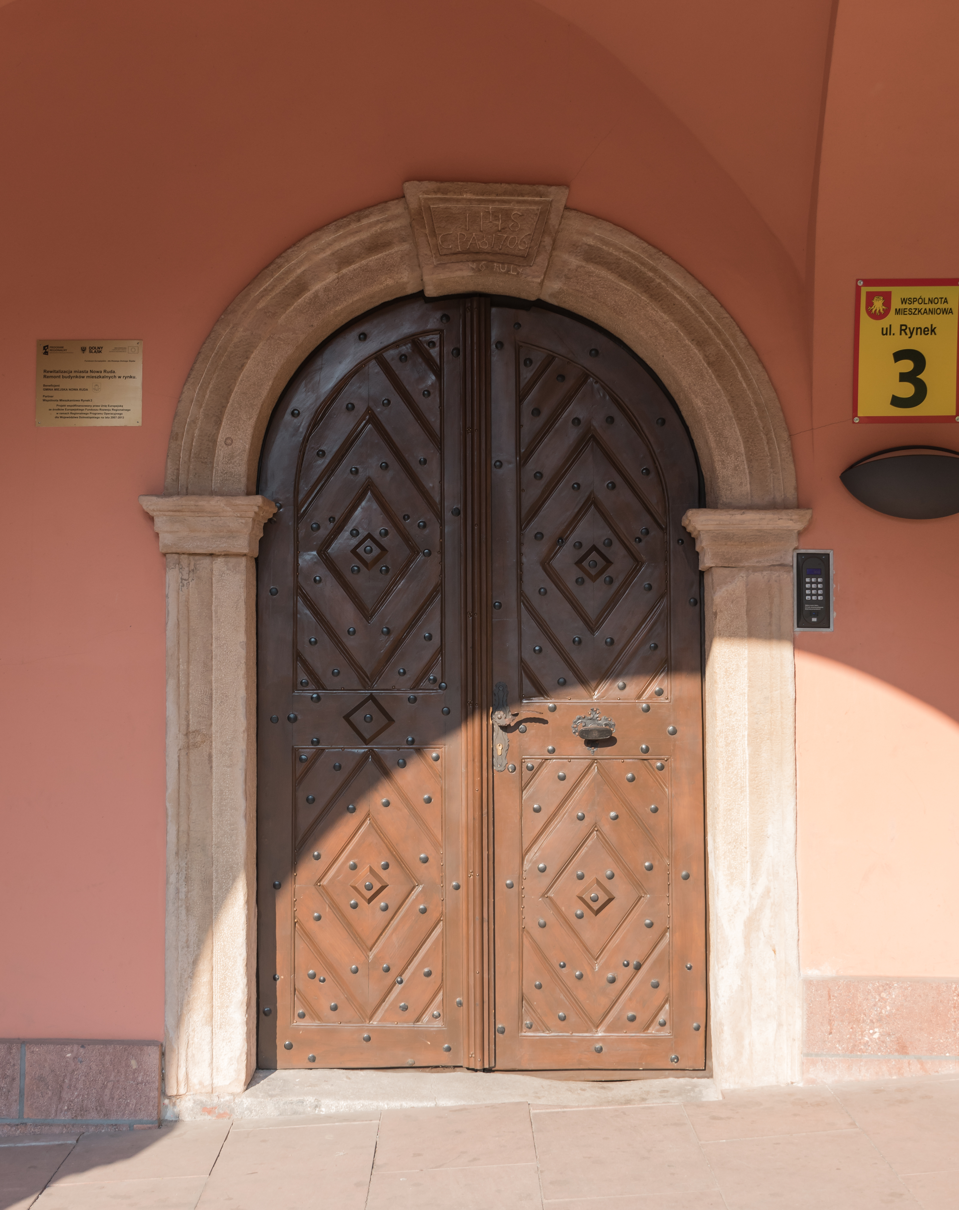 3 Market Square in Nowa Ruda